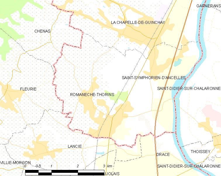 Map of French municipality